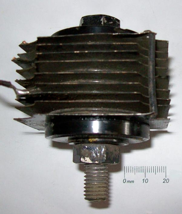 Electrical rectifier (bridge rectifier, approx. 0.5 A / 12 V) made from copper(I)oxide as semiconductor material